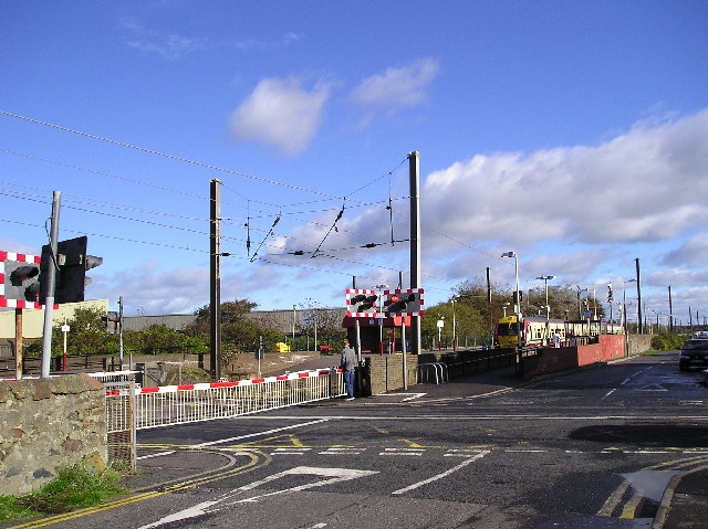 Stevenston railway station with train at the platform and the level crossing gates down